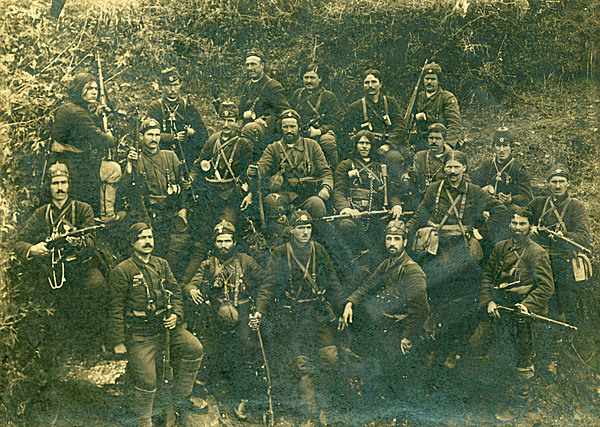 Georgi Atanasov's Band